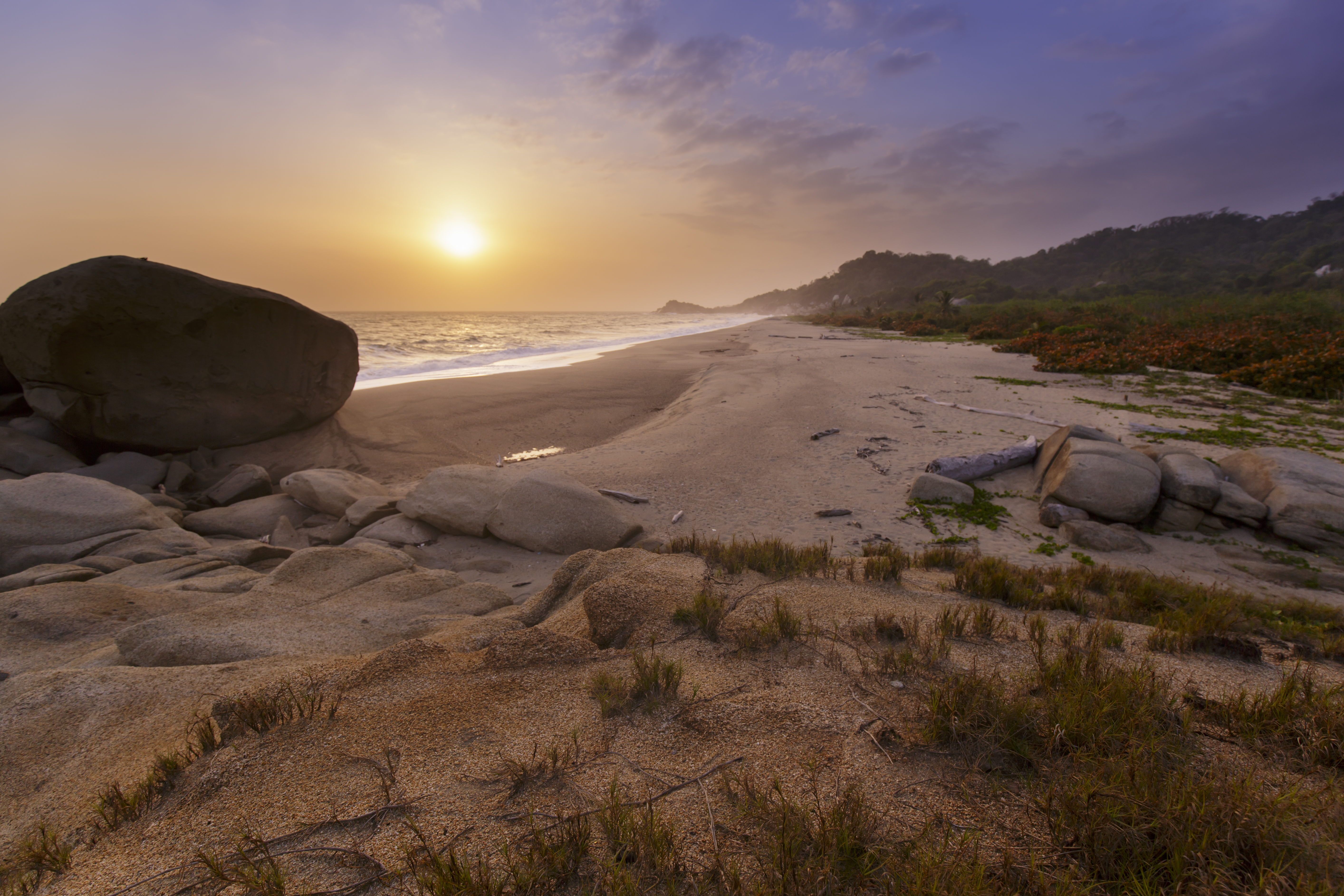 PanAmericana 2017 - the image was taken on an overlanding travel from Ushuaia to Anchorage - taken by Thomas Fuhrmann, SnowmanStudios - see more pictures on / mehr Aufnahmen auf Esta fotografía fue tomada en un área protegida de Colombia con el código 25 del RUNAP.